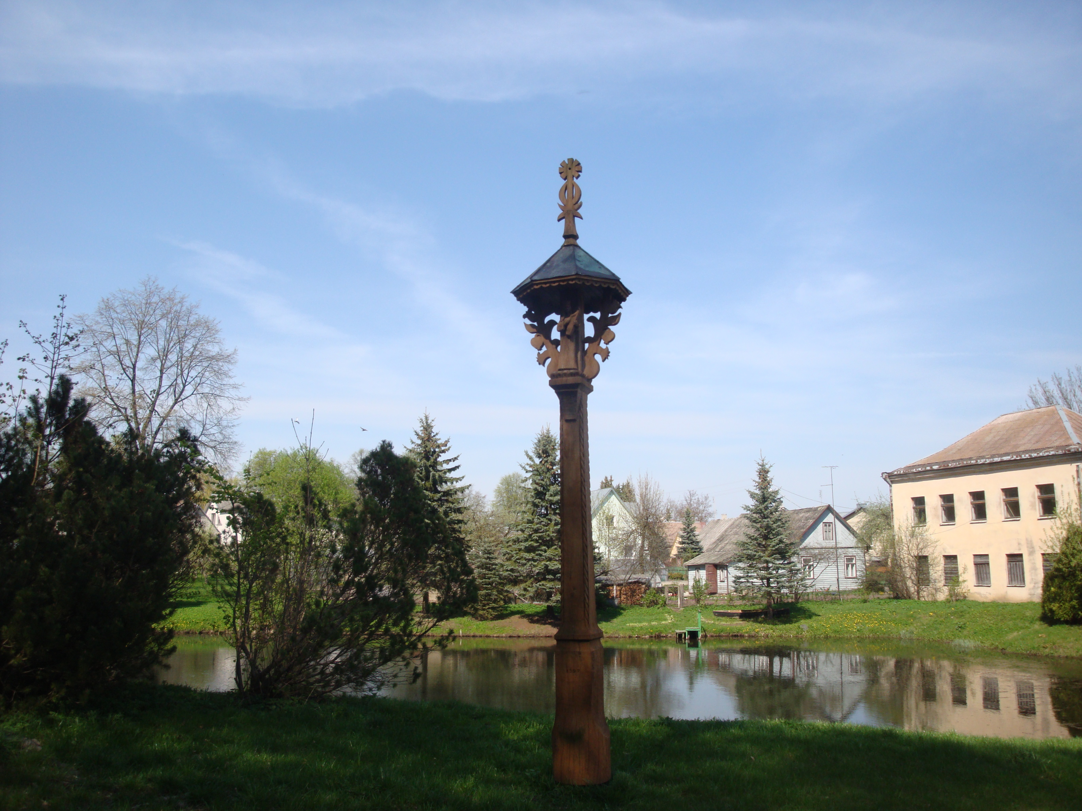 Prienai-town in Lithuania.Sculpture in park